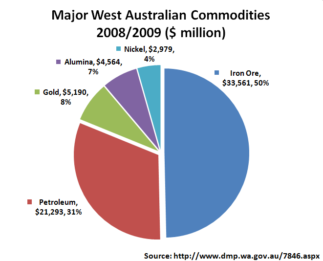 self-made excel chart using published government data. Used details from here